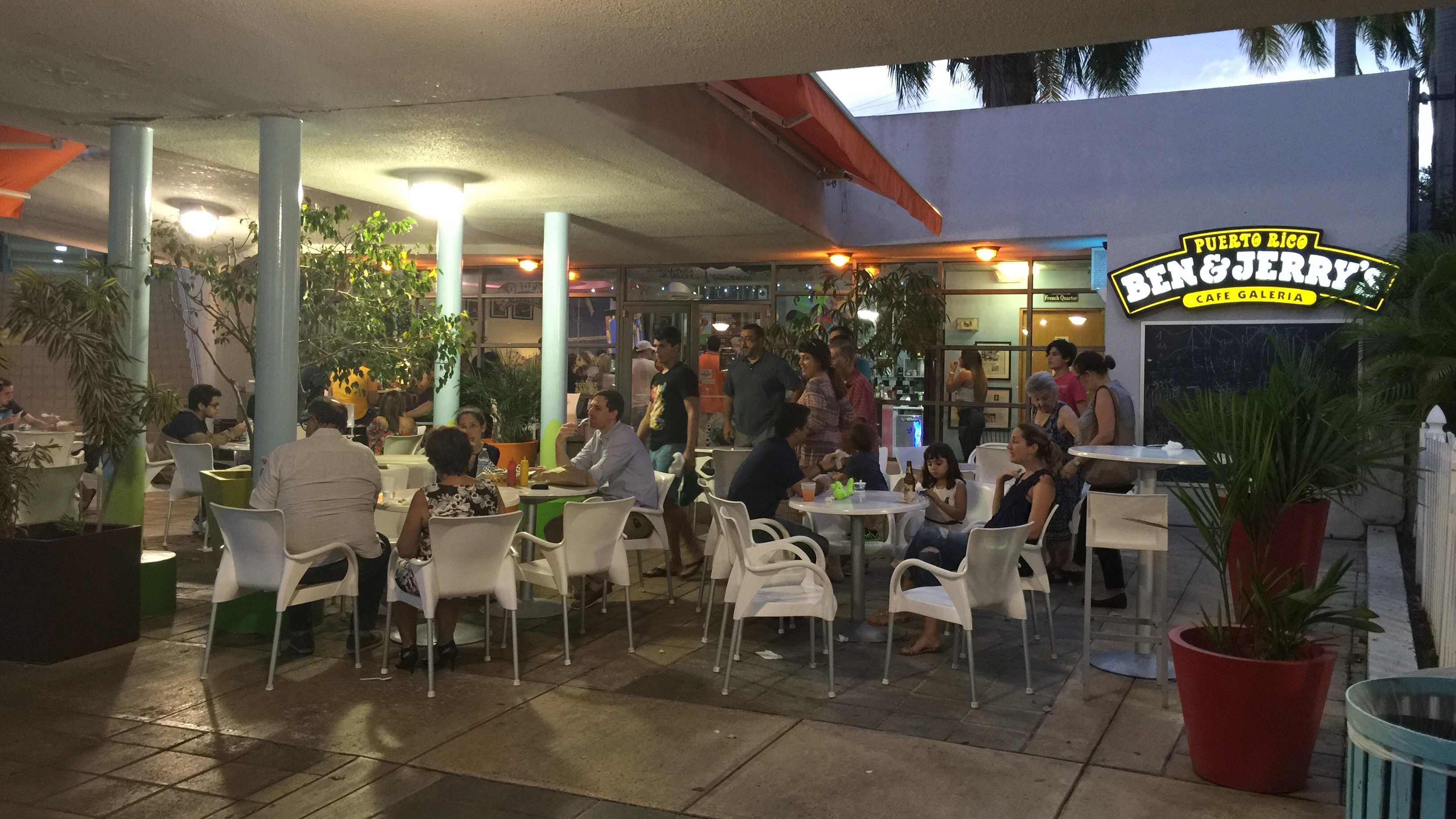 Truly one of Ben & Jerry's best ice cream shops!